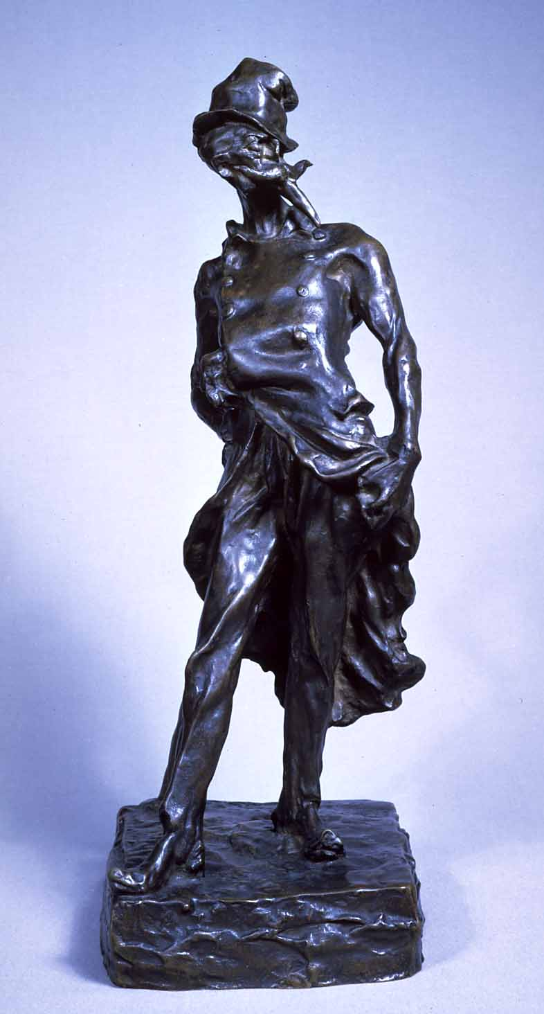 Daumier intended this swaggering bully, Ratapoil (rat skin), to satirize the unscrupulous political agents who connived to help Louis Napoleon rise to power and become "Emperor of the French" (1852-70). None of Daumier's models in clay, wax, or plaster were cast in bronze during his lifetime. This example, ordered from the foundry of Siot-Decauville in 1891 by George A. Lucas, William T. Walters' art advisor, is ranked among the earliest and finest casts of the subject.